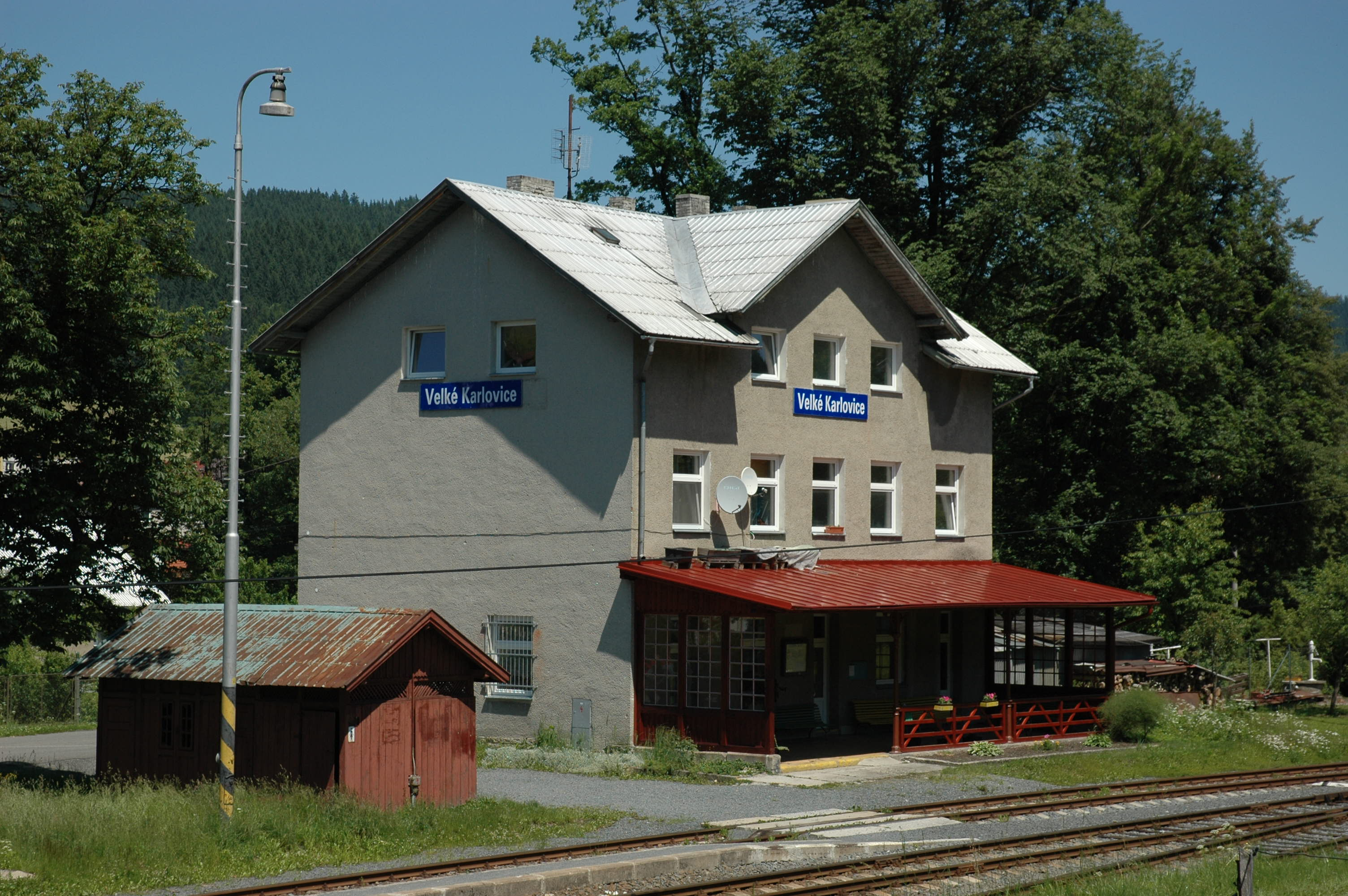 Velké Karlovice railway station